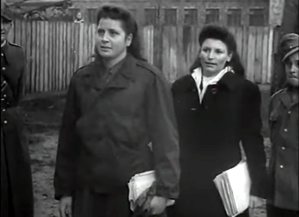 Movie screenshot.